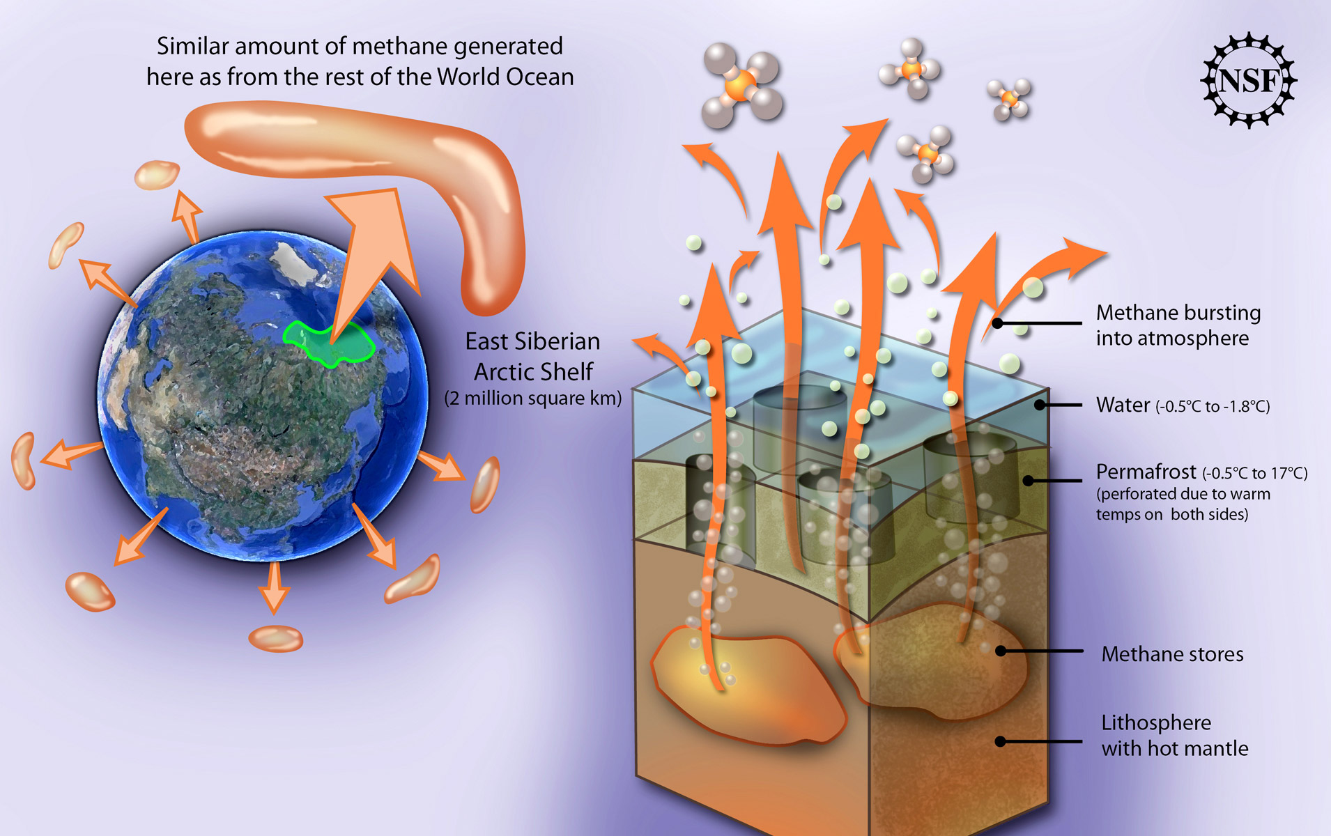 The permafrost of the East Siberian Arctic Shelf (an area of about 2 million kilometers squared) is more porous than previously thought. The ocean on top of it and the heat from the mantle below it warm it and make it perforated like Swiss cheese. This allows methane gas stored under it under pressure to burst into the atmosphere. The amount leaking from this locale is comparable to all the methane from the rest of the world's oceans put together. Methane is a greenhouse gas more than 30 times more potent than carbon dioxide. Credit: Zina Deretsky, National Science Foundation For more about this research, Visit NSF’s Multimedia Gallery, at for more images, and for video.